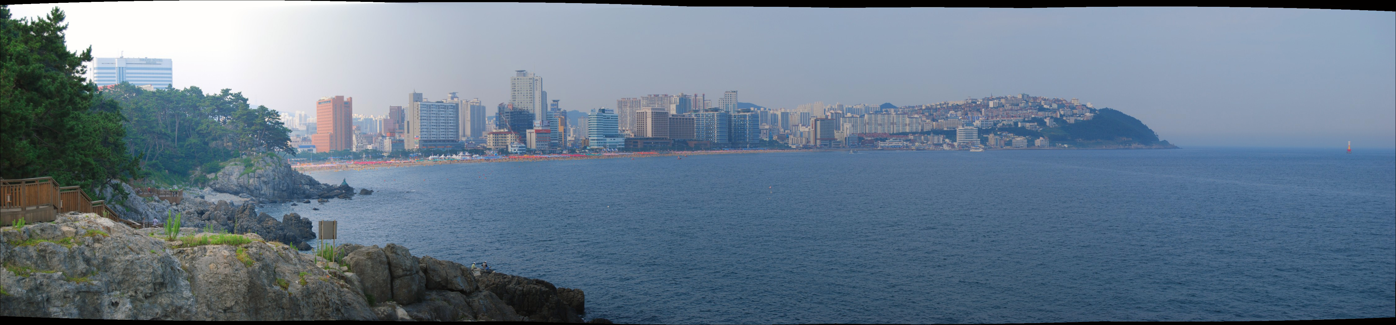 My work using 5 separate exposures